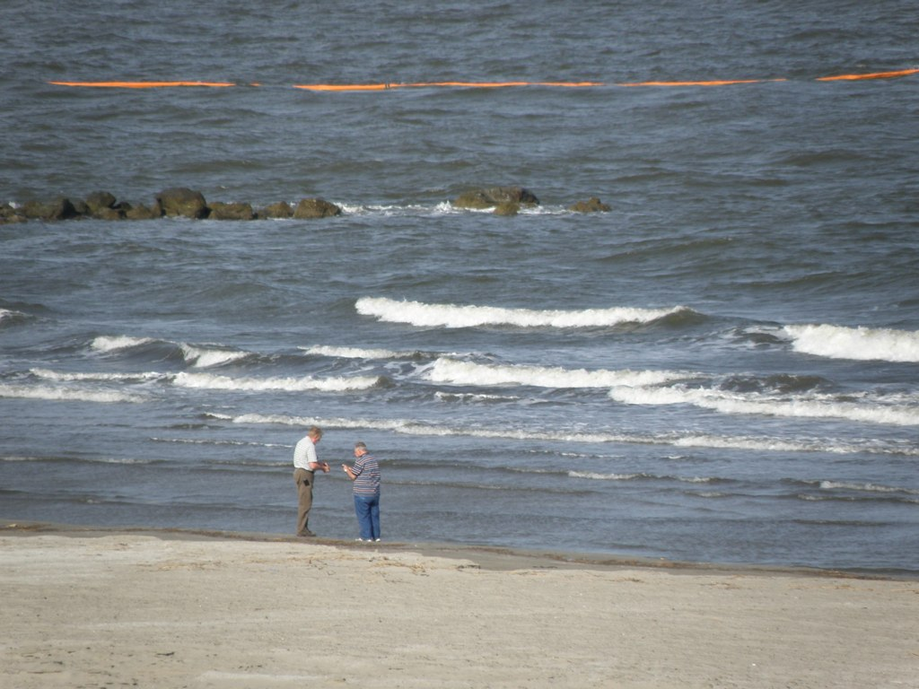 Beach at Grand Isle, Louisiana. Two men collecting samples of oil from Deepwater Horizon oil spill. Oil containment boom off shore.